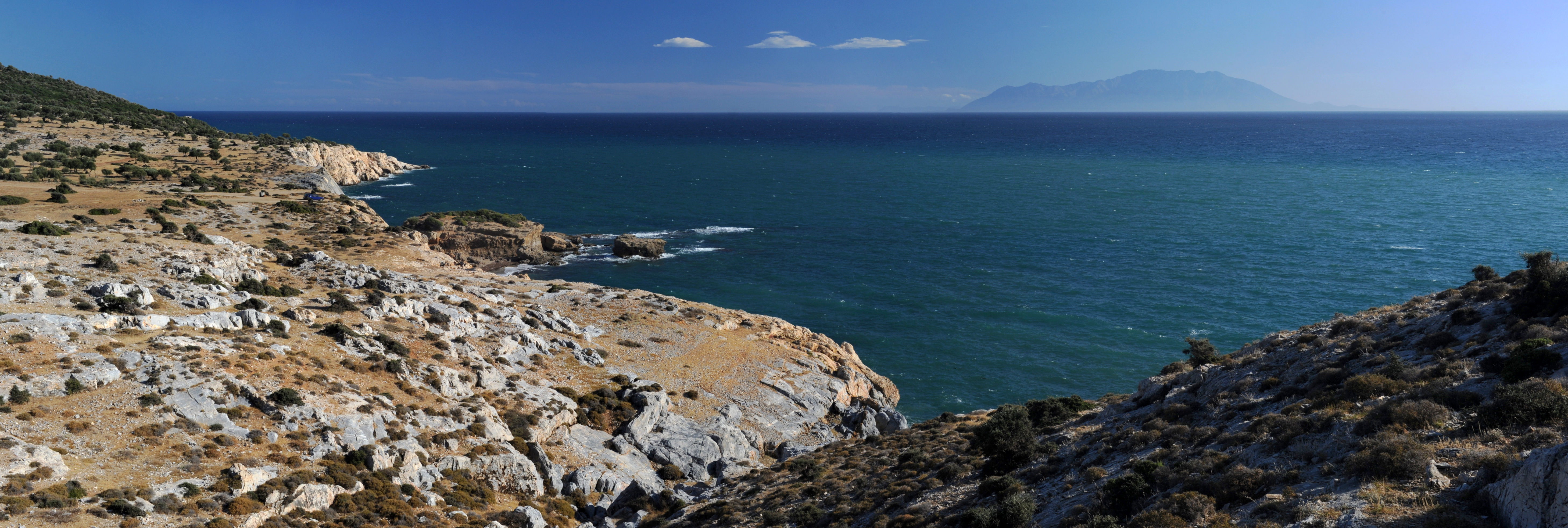 Active fault of Maronia-Makri, Marmaritsa, Rhodope, Thrace, Greece.